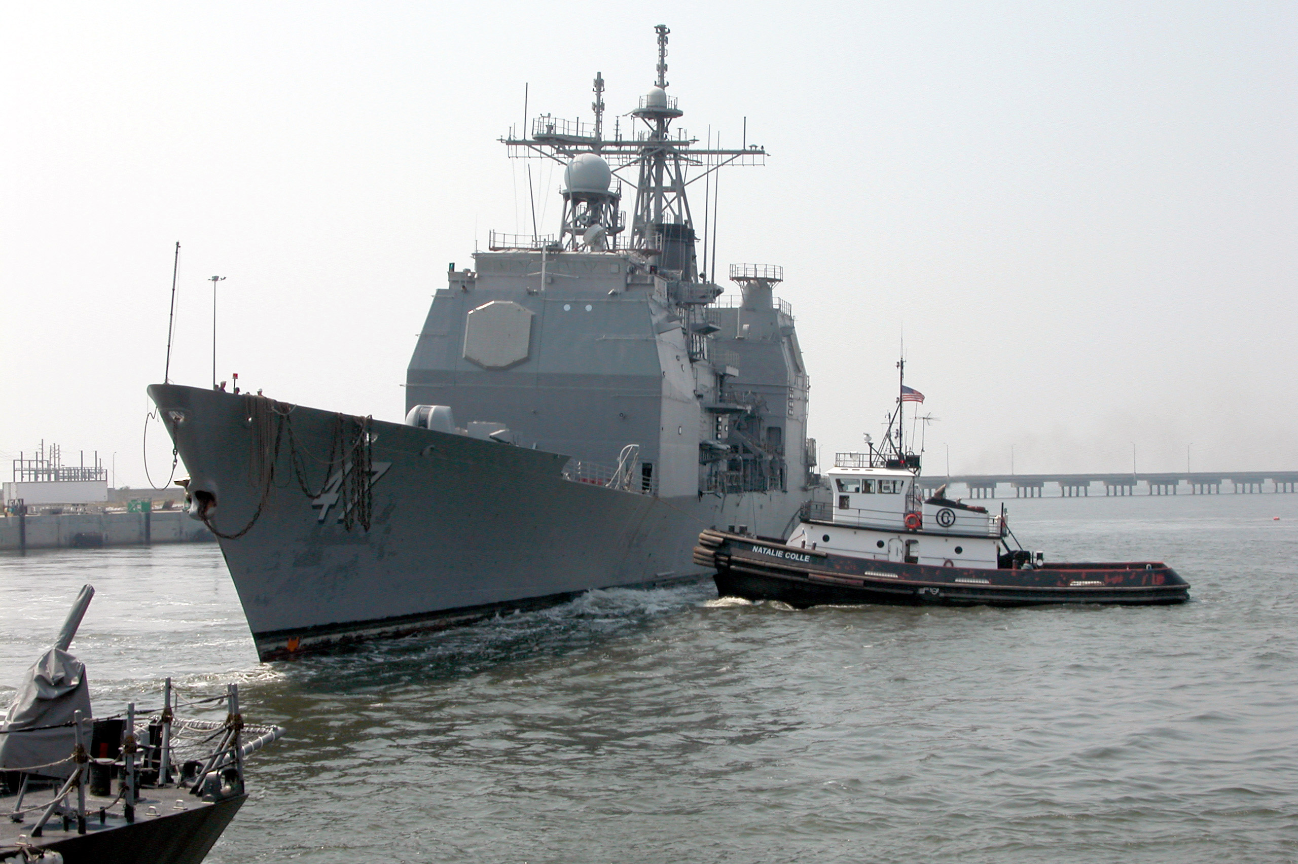 The US Navy (USN) Ticonderoga Class guided missile cruiser USS TICONDEROGA (CG 47), is towed out of Naval Station (NS) Pascagoula, by the ocean tug "Natalie Colle," immediately following the ship's decommissioning ceremony.